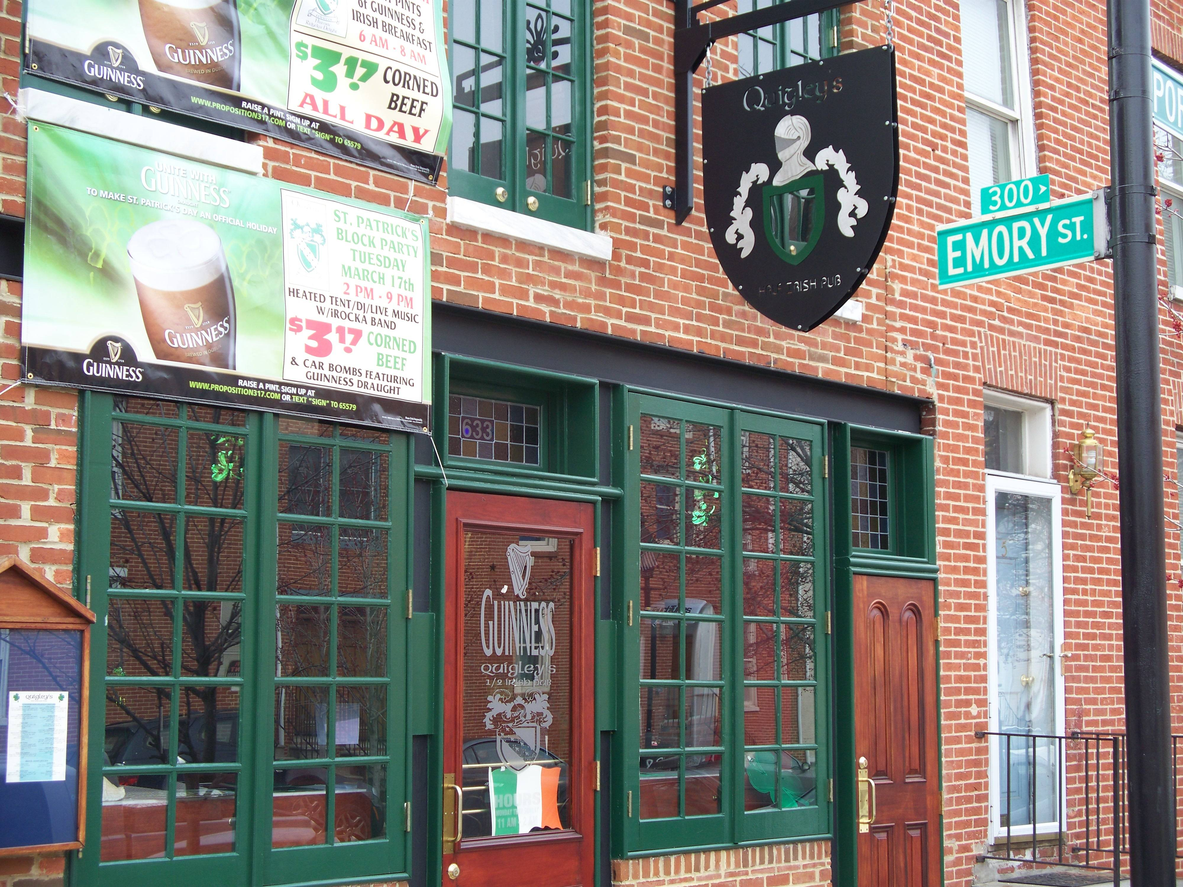 Quigley's Half-Irish Pub located in the Ridgely's Delight neighborhood of Baltimore, Maryland